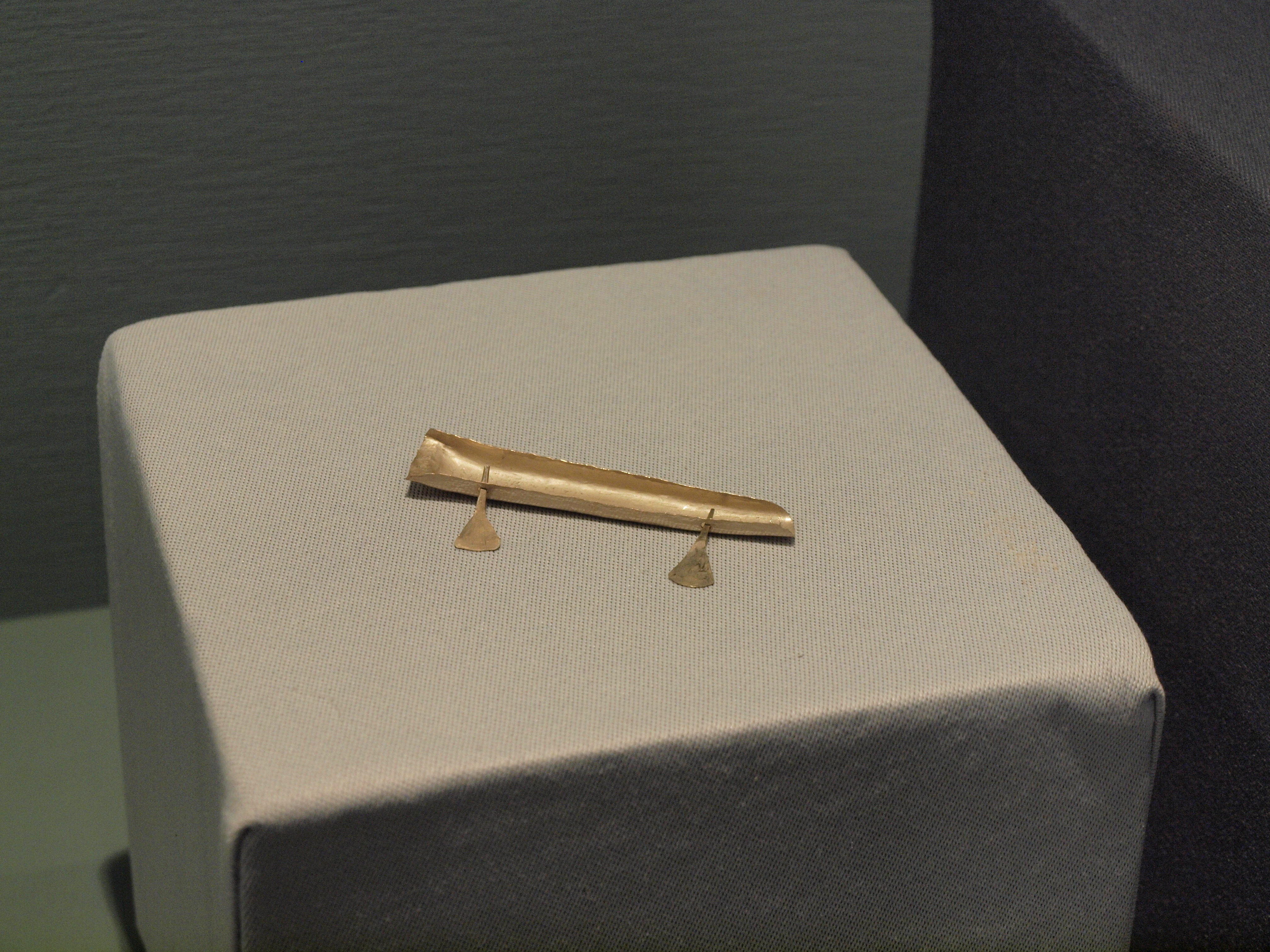 golden miniboat Etruscan, found in Austria - Le grande vie della civiltà- Castello del Buonconsiglio- Trento